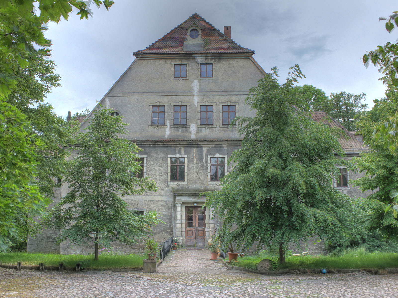 Castle Falkenhain